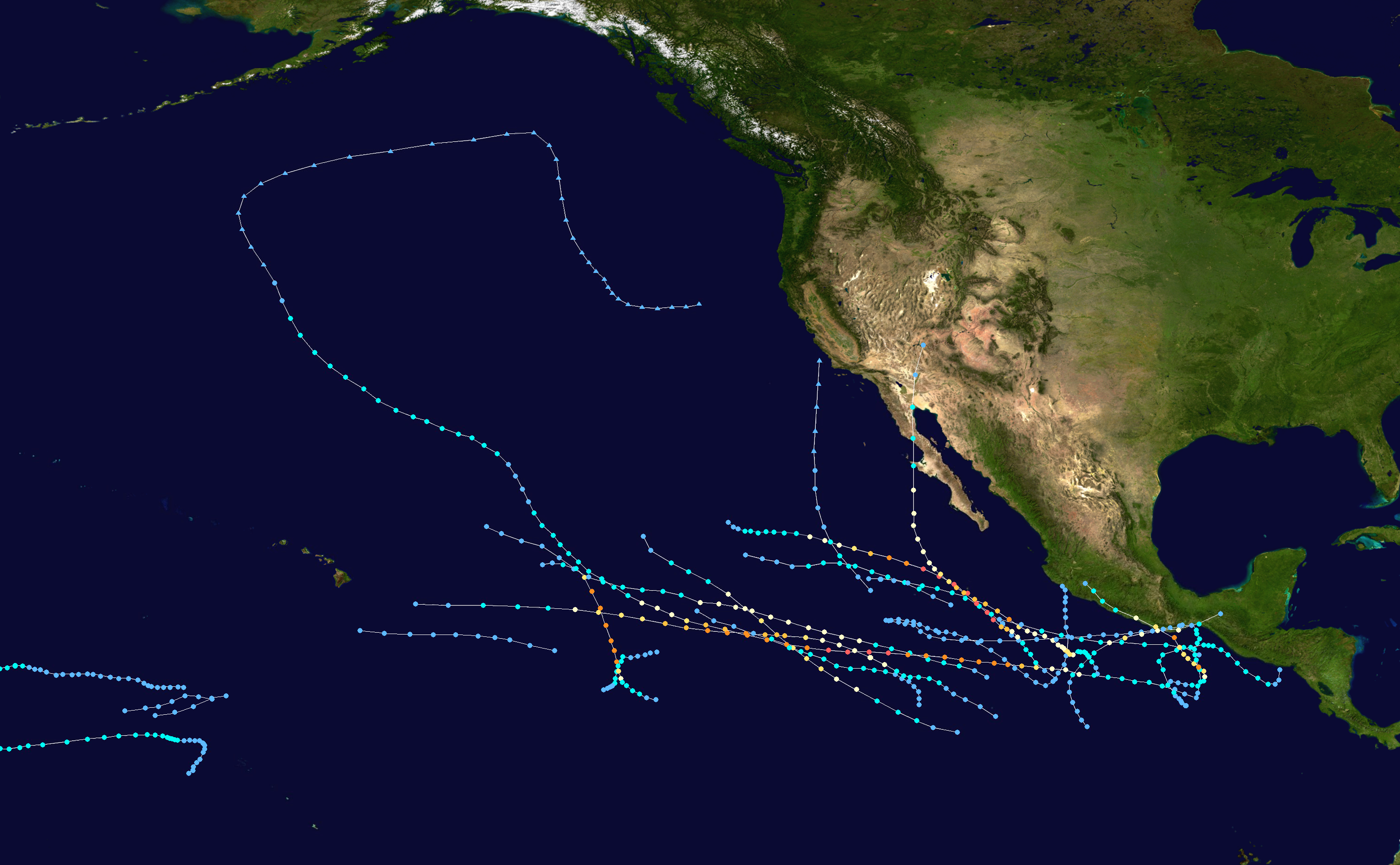 Summary map